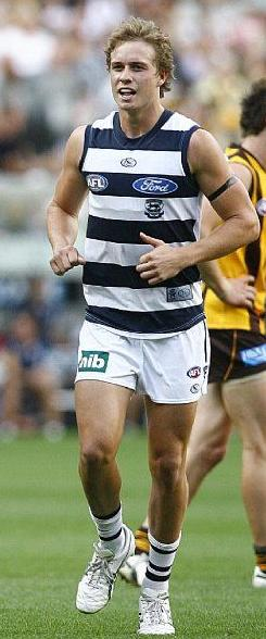 Mitch Duncan in a Round 2 game against Hawthorn during the 2010 AFL season